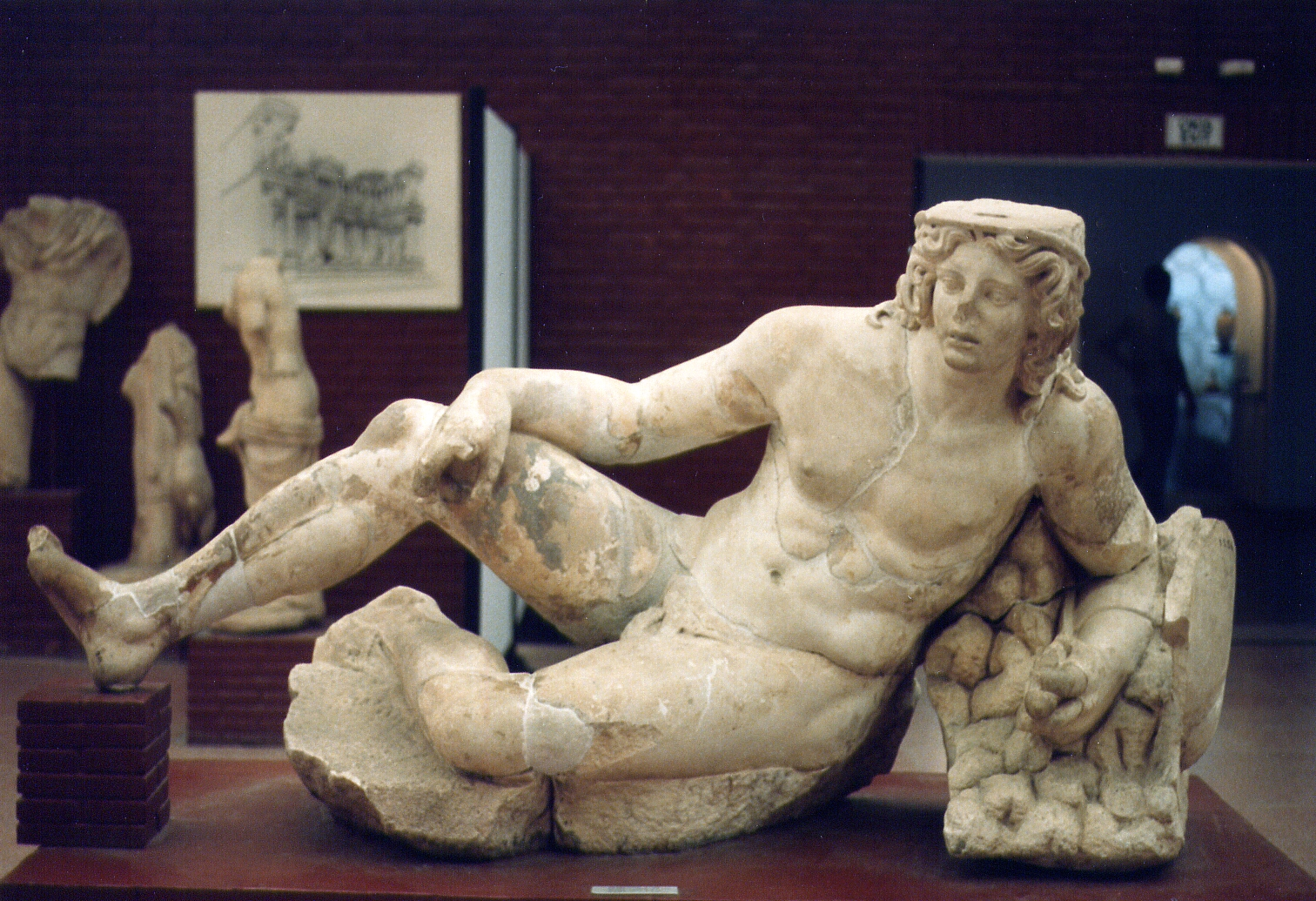 Statue of a resting warrior from Ephesus. Found at the well of Polius in Ancient Ephesus. Ephesus Archaeological Museum, no. 1556.